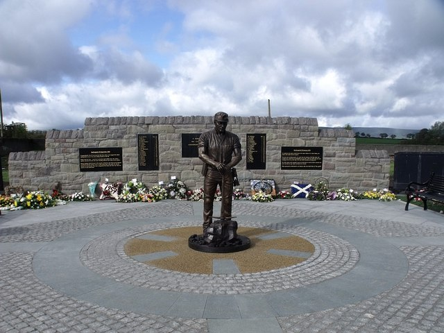 The Auchengeich Mining Disaster Memorial Unveiled by the First Minister of Scotland Alex Salmond on 18th. September 2009 - the 50th. anniversary of the disaster when 47 colliers were killed in an underground fire on the same day in 1959. The memorial replaces a smaller one which was situated at the same place next to the Auchengeich Miners Welfare.